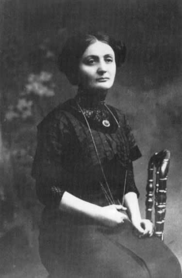 Franciszka Arnsztajnowa (1865 - 1942) - Polish poet, playwright, and translator of Jewish descent.